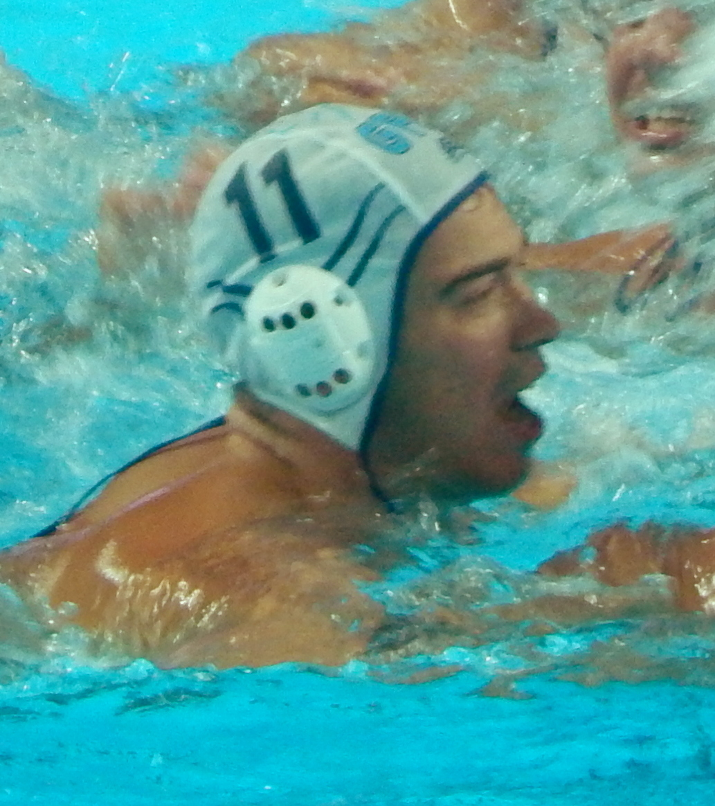 The bronze medal match between Team Greece and Team Italy. All photos have been taken from the photographers sector. I was simply usual visitor but my ticket was to non-existent seats, therefore I was moved to that sector. All good photos I upload to WikiCommons for free use.